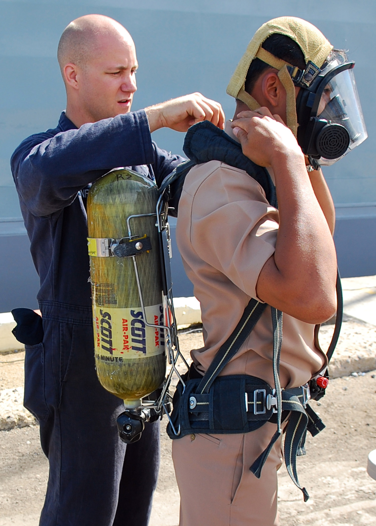 SATTAHIP, Thailand (July 11, 2009) Damage Controlman Fireman Jason Hazenfield, assigned to the guided-missile frigate USS Crommelin (FFG 37), helps a Royal Thai Navy sailor don a self-contained breathing apparatus (SCBA) during a damage control demonstration and brief as part of Cooperation Afloat Readiness and Training (CARAT) Thailand 2009. CARAT is a series of bilateral exercises held annually in Southeast Asia to strengthen relationships and enhance the operational readiness of the participating forces. (U.S. Navy photo by Mass Communication Specialist 1st Class Bill Larned/Released)